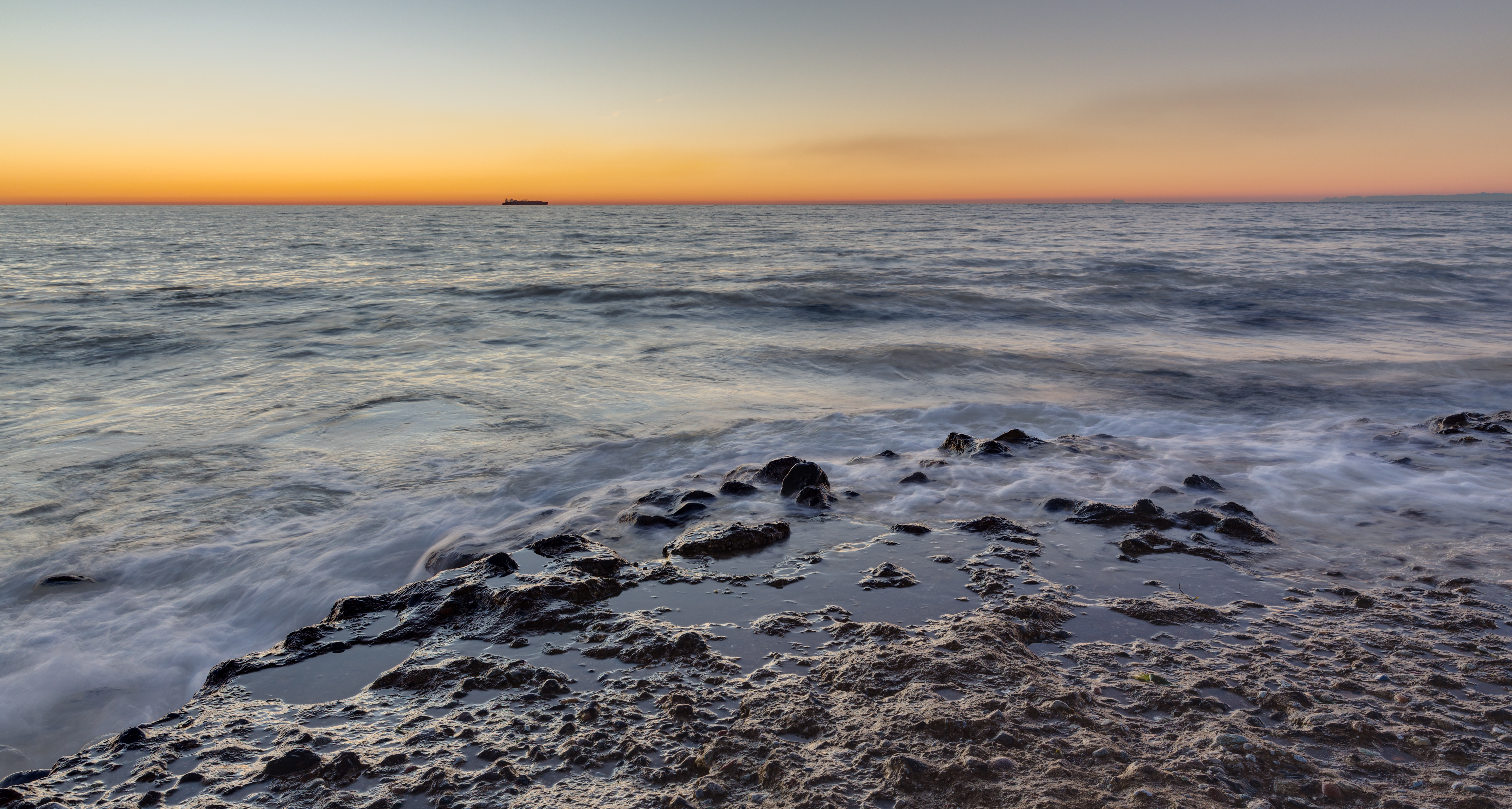 Grau Vell, SCI Marjal del Moro, Valencia, Spain